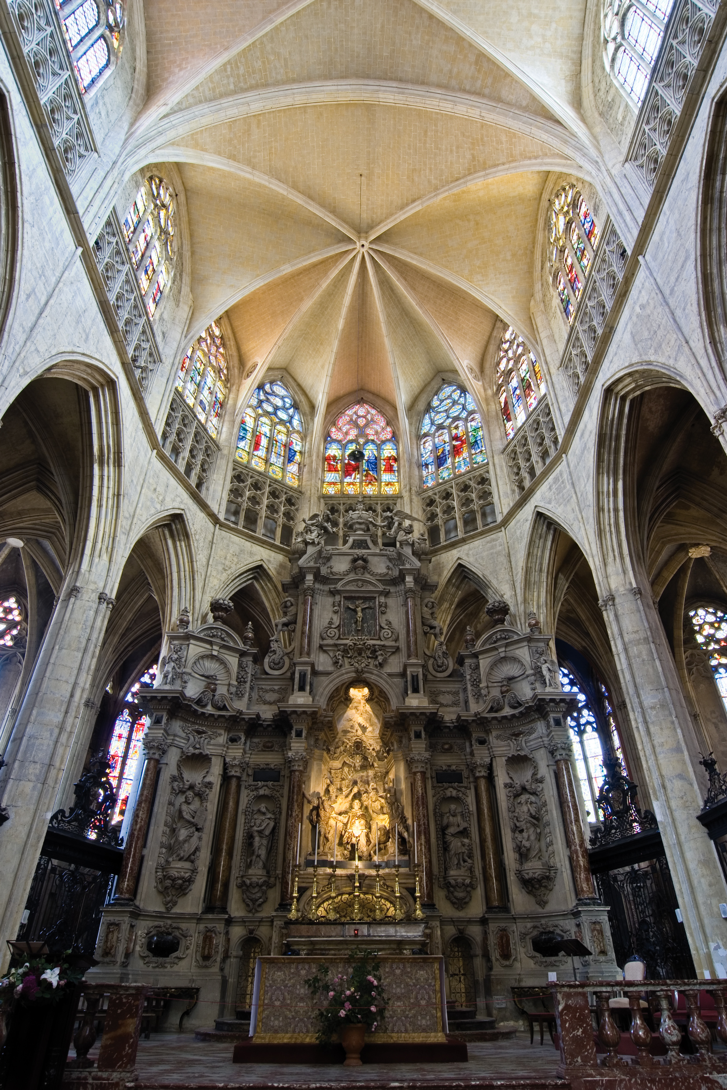 Apse and altar of Gothic part (Toulouse Cathedral, France)